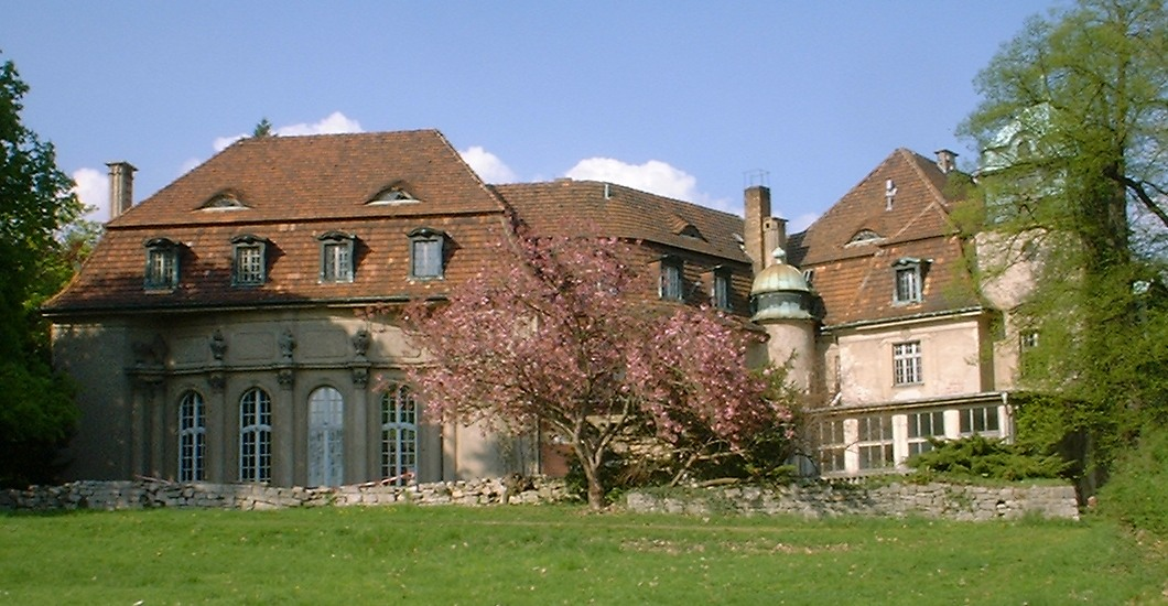 Palace in Potsdam-Marquardt, Germany